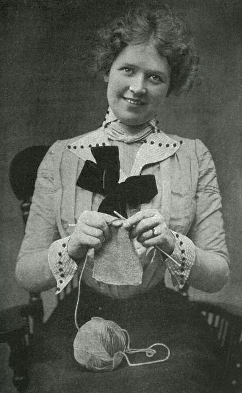 Illustration from "Vivilore: The Pathway to Mental and Physical Perfection"